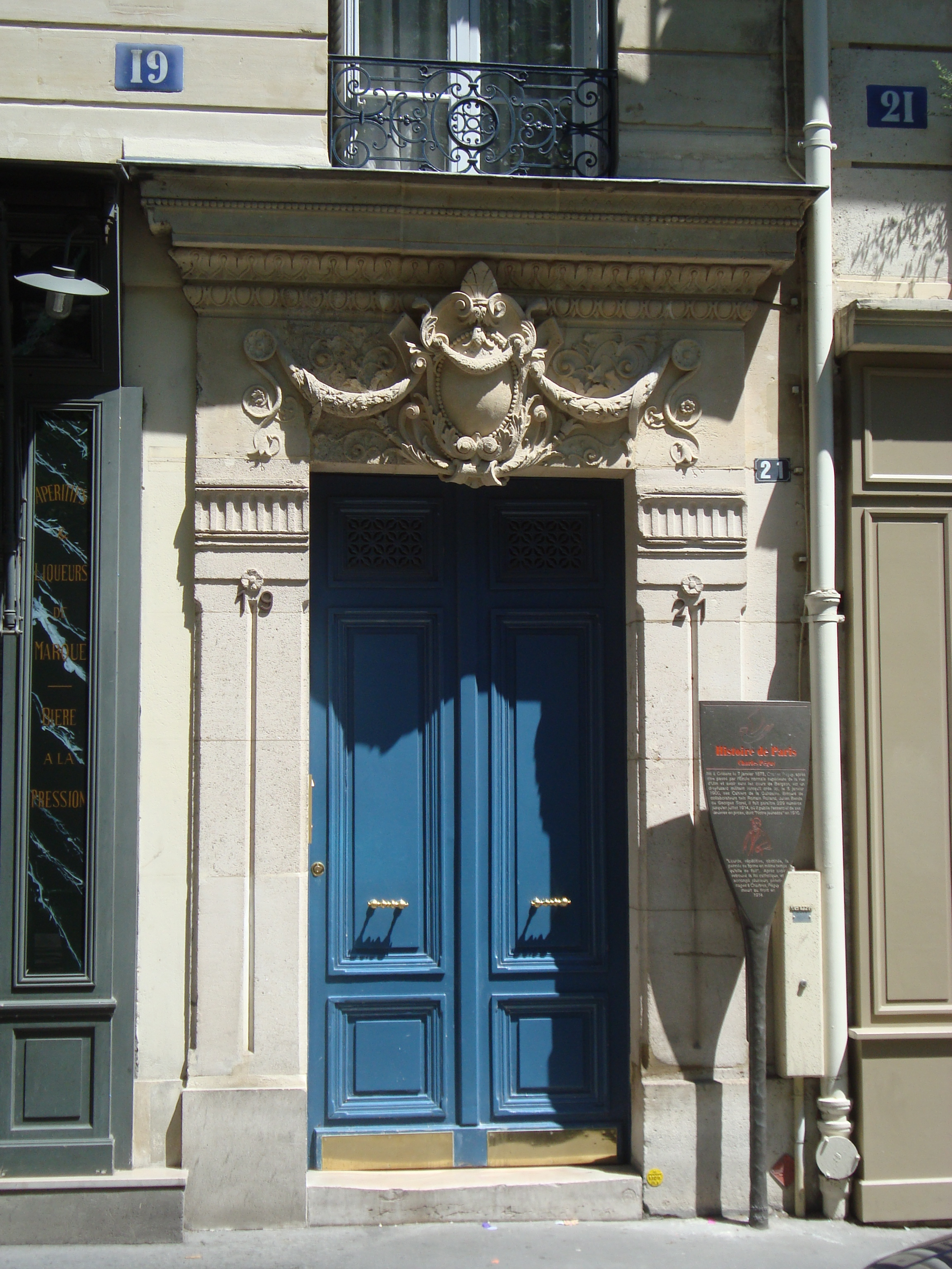 21, rue de l'Estrapade where Charles Péguy and his wife lived.